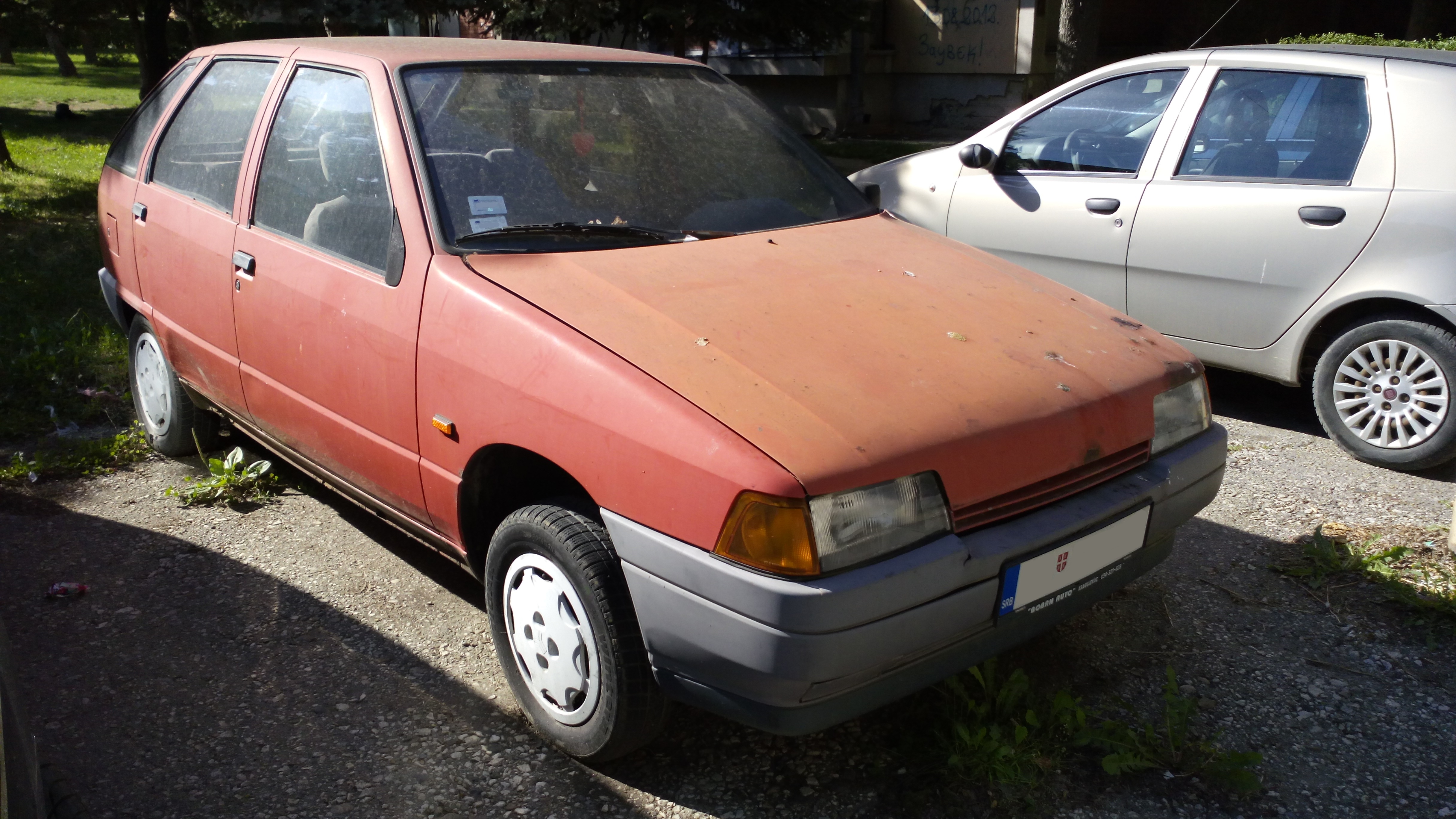 Early example of Yugo Florida in Kragujevac